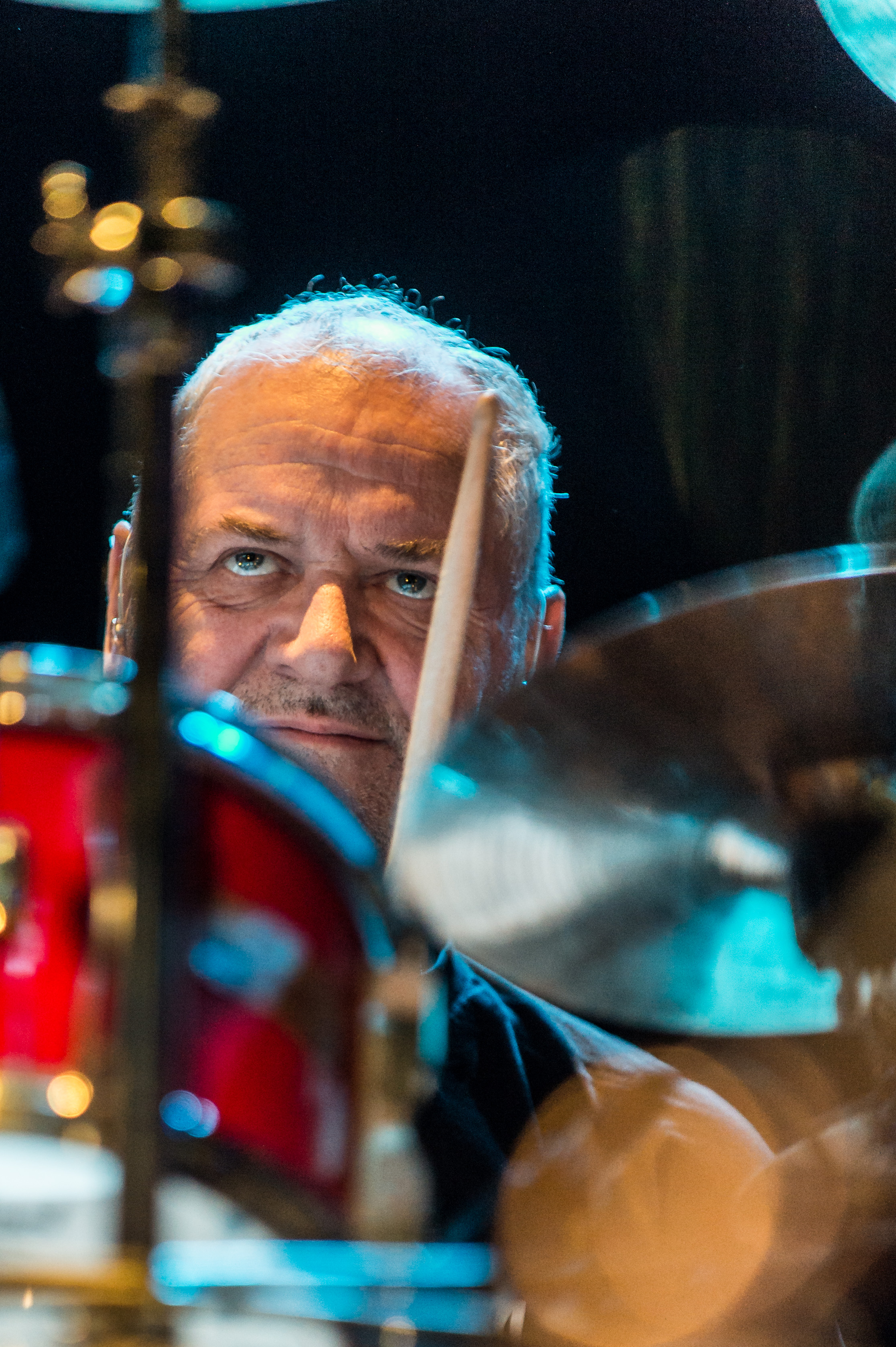 Jon Hiseman with Colosseum Z-7, Pratteln, Switzerland